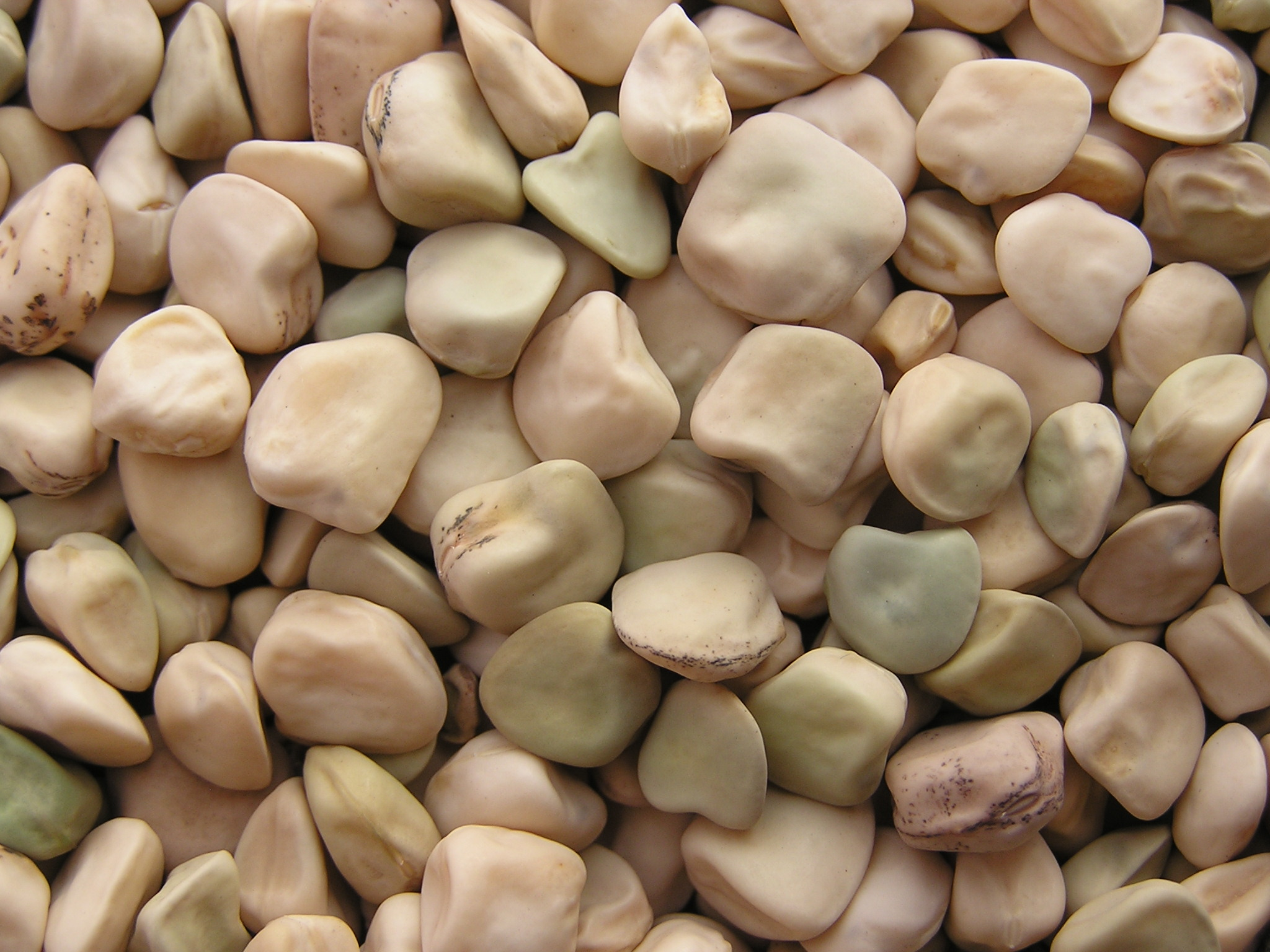 chickling pea